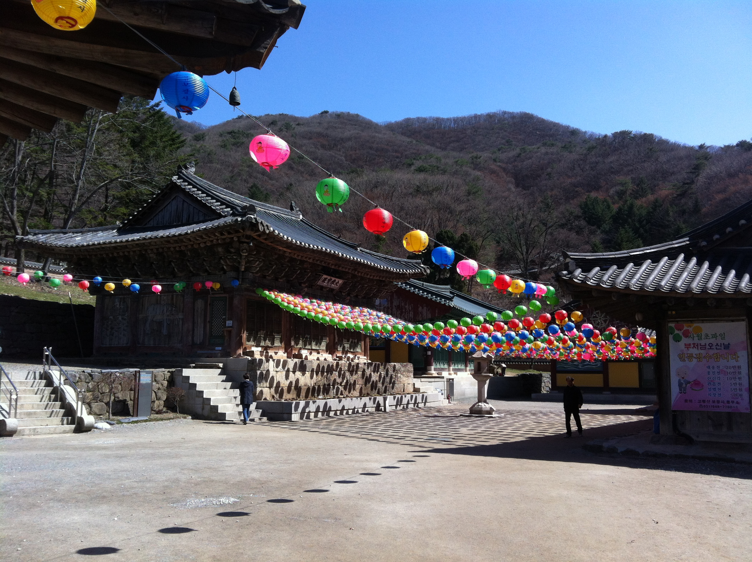 Bogwangsa at Paju-si, Gyeonggi-do, Korea